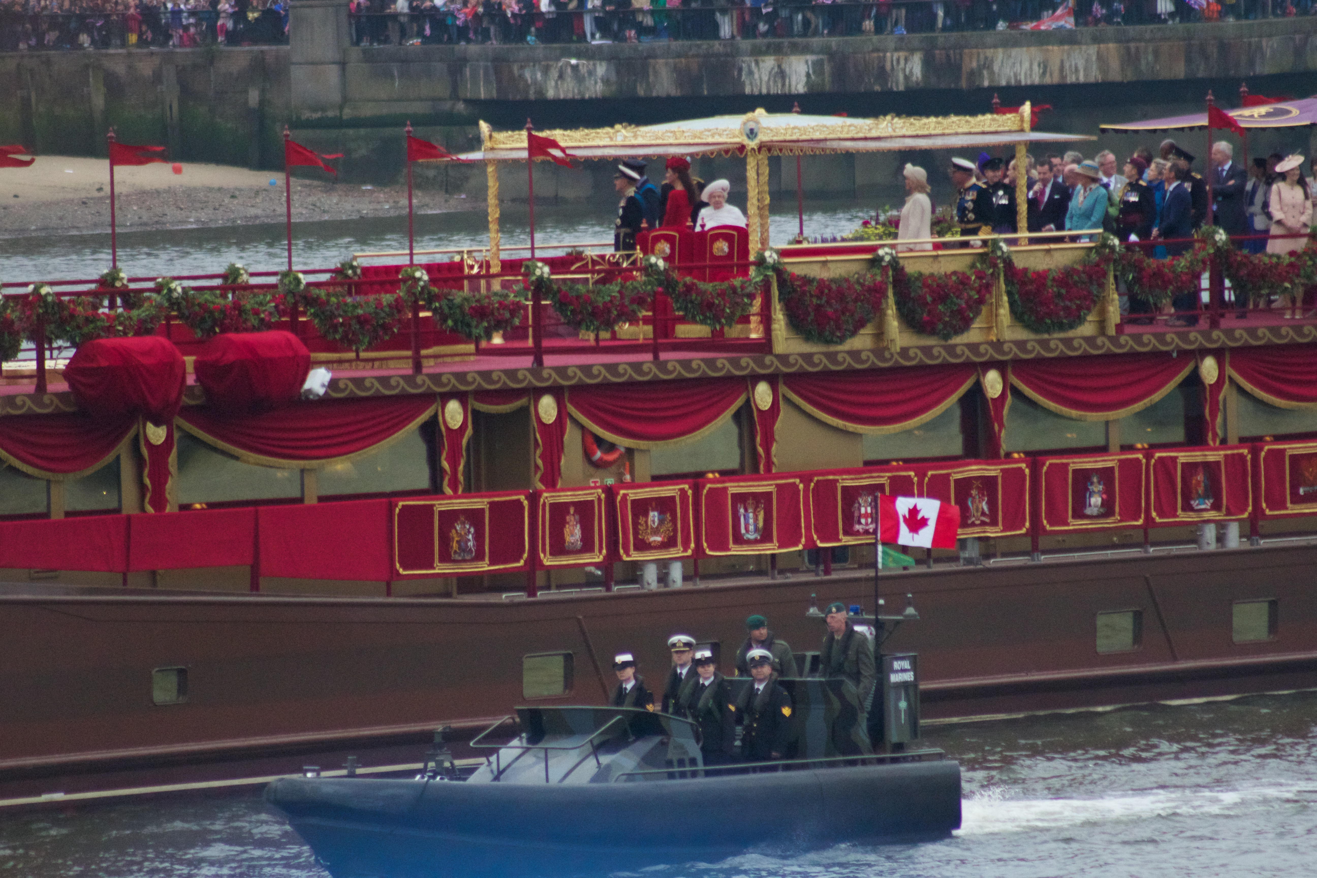 Queen Elizabeth and seven members of the royal family aboard Spirit of the Chartwell during the 2012 Diamond Jubilee celebrations. In the foreground is an Offshore Raiding Craft from 539 Assault Squadron Royal Marines, crewed by members of the Royal Canadian Navy, part of the Queen's honor guard for the pageant.